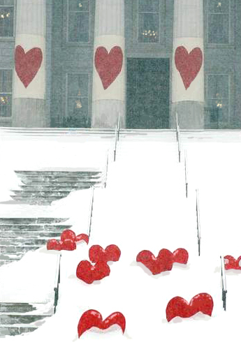 Photo of the work of the valentine bandit